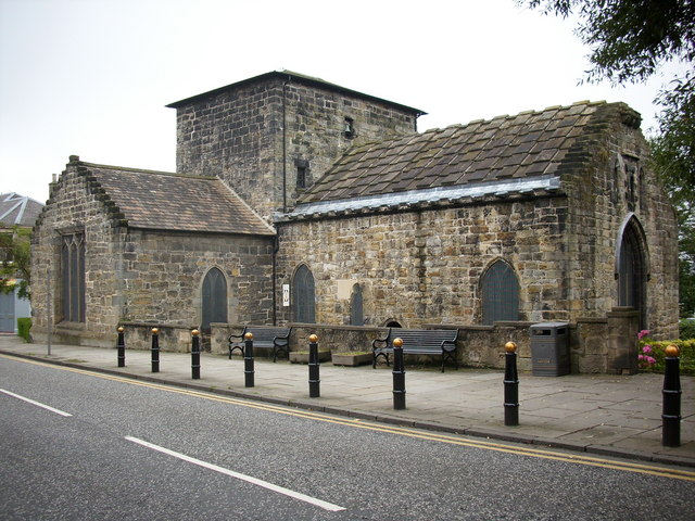 St. Mary's Church. Queensferry. The old 15th church is part of the Scottish Episcopal Church. The church is one of the oldest church, intact, in Scotland and was once part of a monastery. It still stands proud in the western end of the High Street.